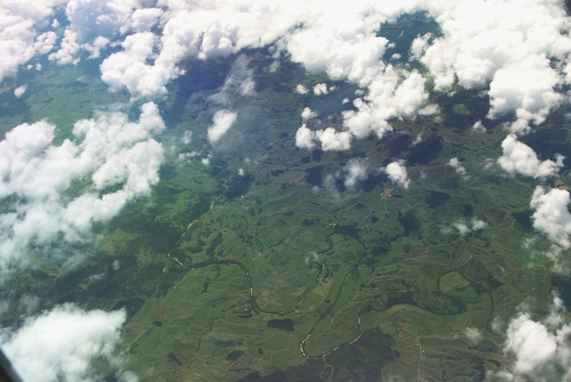 King Country Farmland from the air